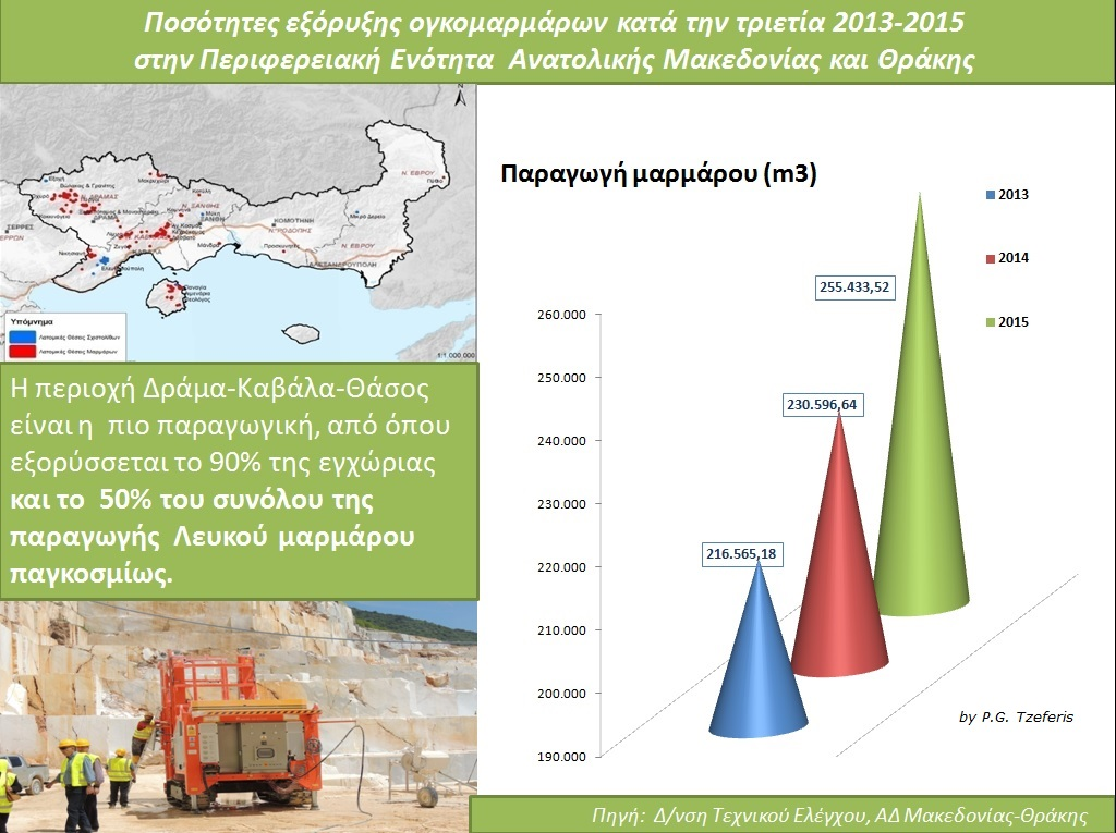 Production of greek marbles, East Macedonia-Thrace Prefecture